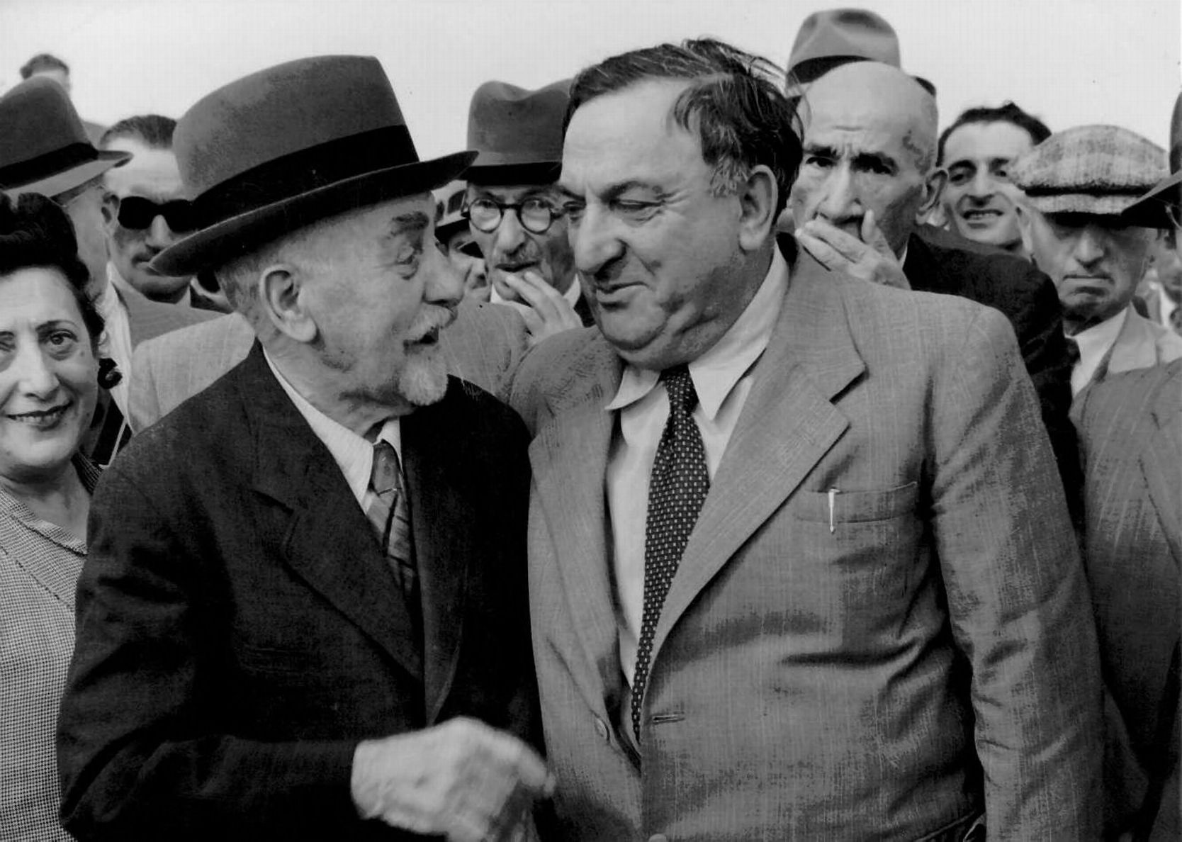 A. Krinitzy, one of Ramat Gan's founders and Head of its City Council, with Z. Gluskin and others.